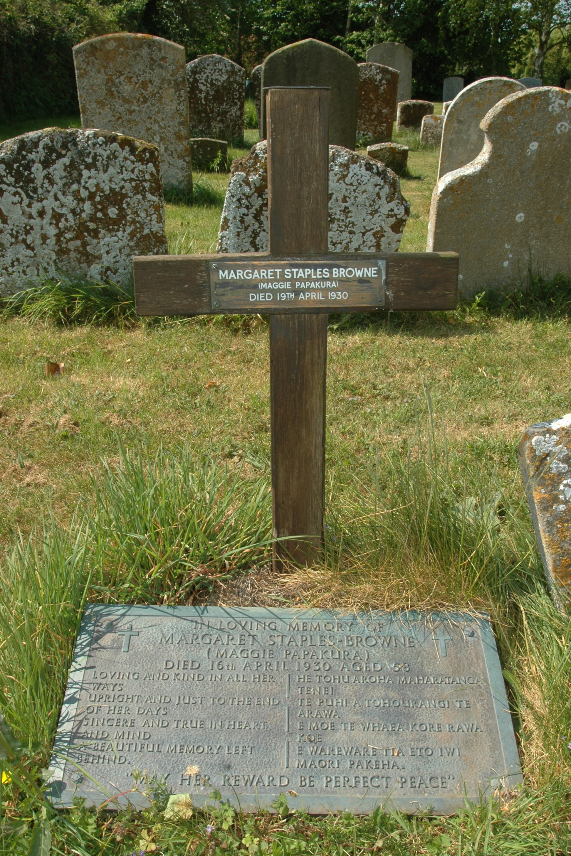 Church of England parish church of St Andrew, Oddington, Oxfordshire: grave of Margaret Staples Browne (died 1930), a Maori princess whose maiden name was Margaret Papakura